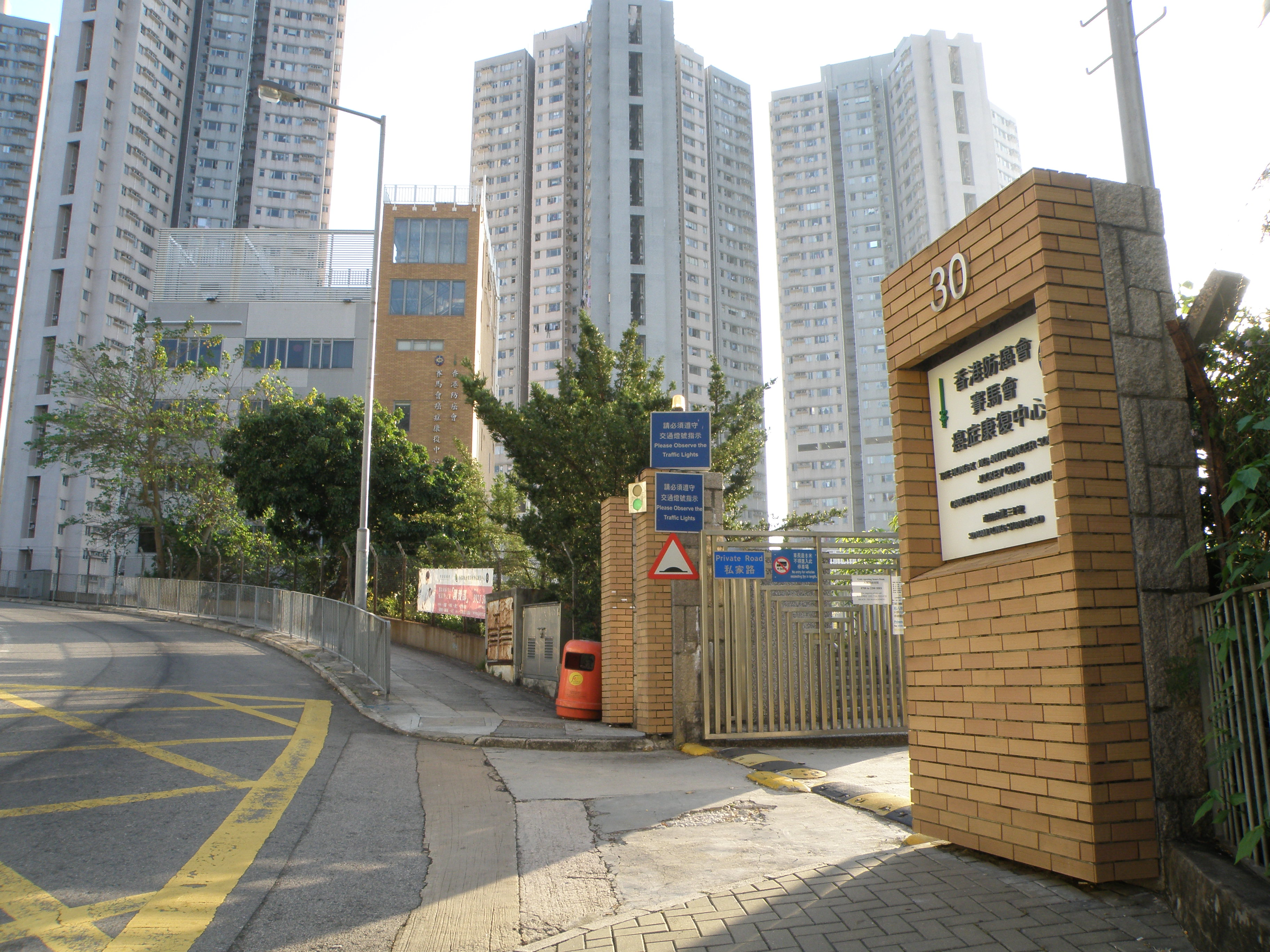 The Hong Kong Anti-cancer Society Jockey Club Cancer Rehabilitation Centre in Sham Wan, Hong Kong.